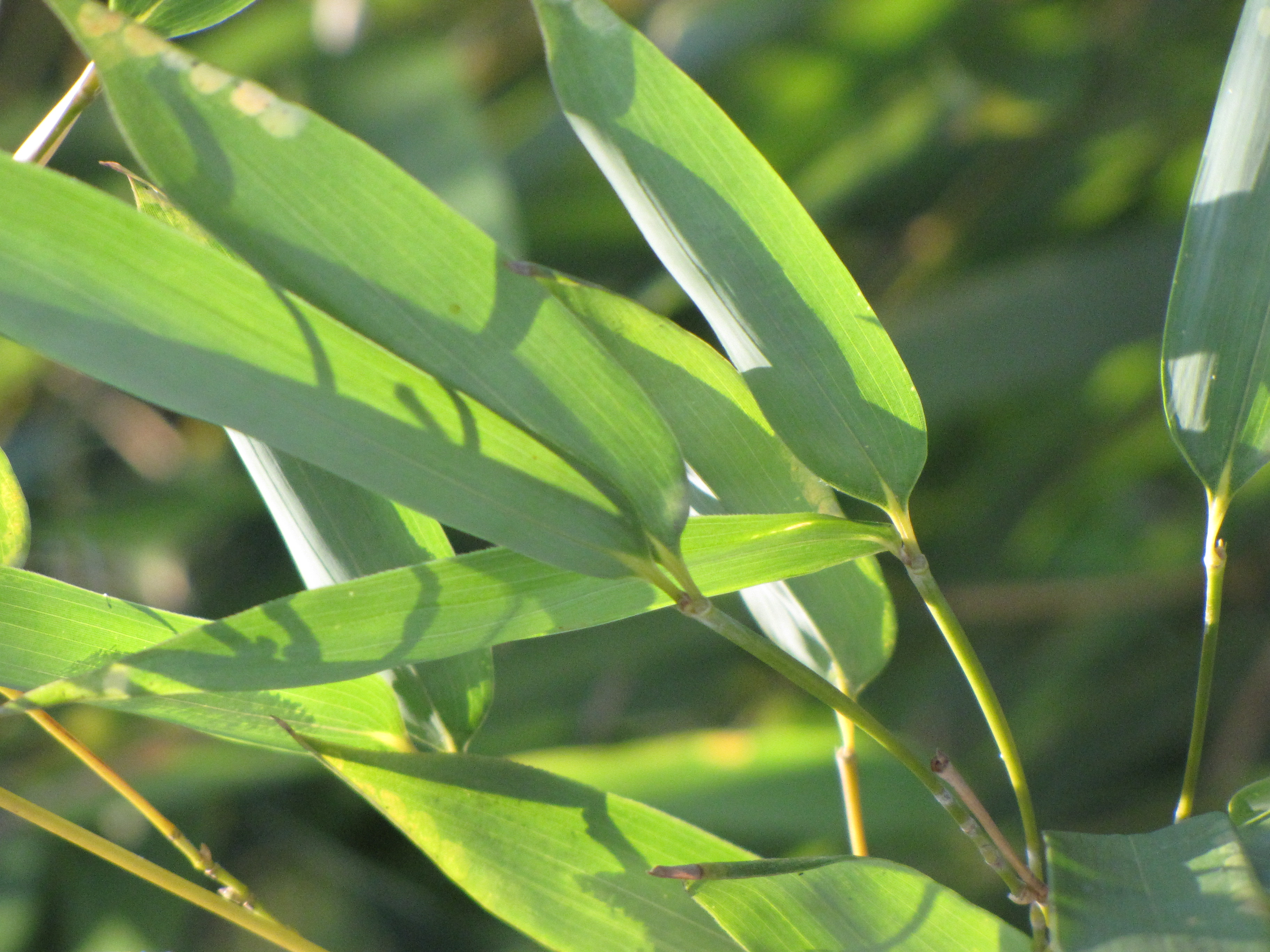 Bamboo